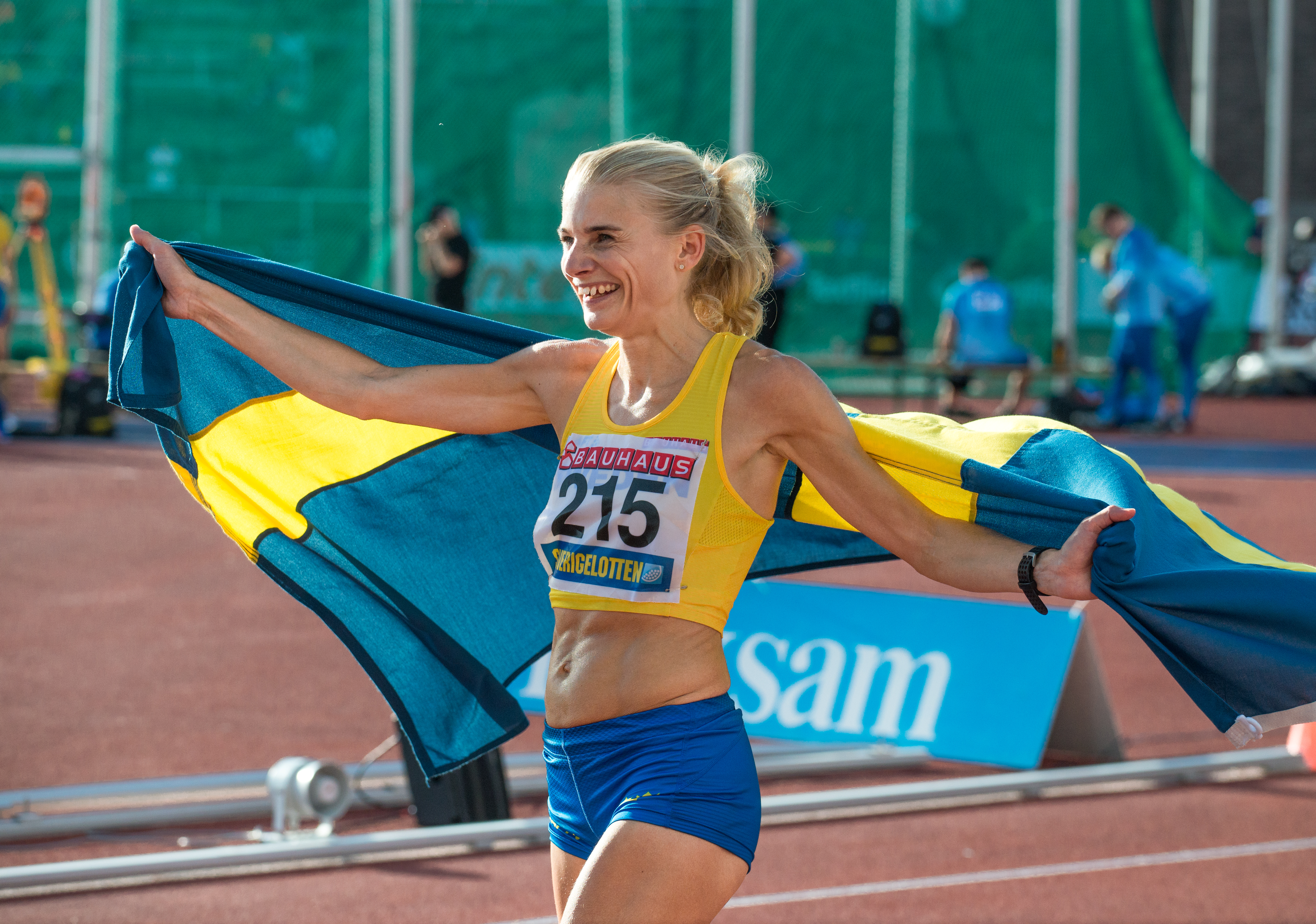 Hanna Lindholm during the Finland-Sweden athletics international 2019 at the Stockholm Stadium in August 2019.